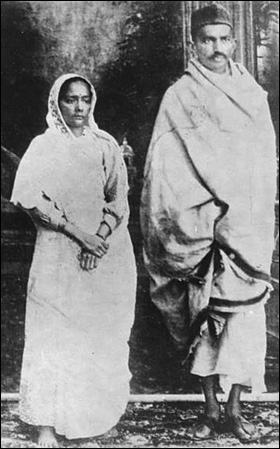 Gandhi and his wife Kasturbhai in 1914.